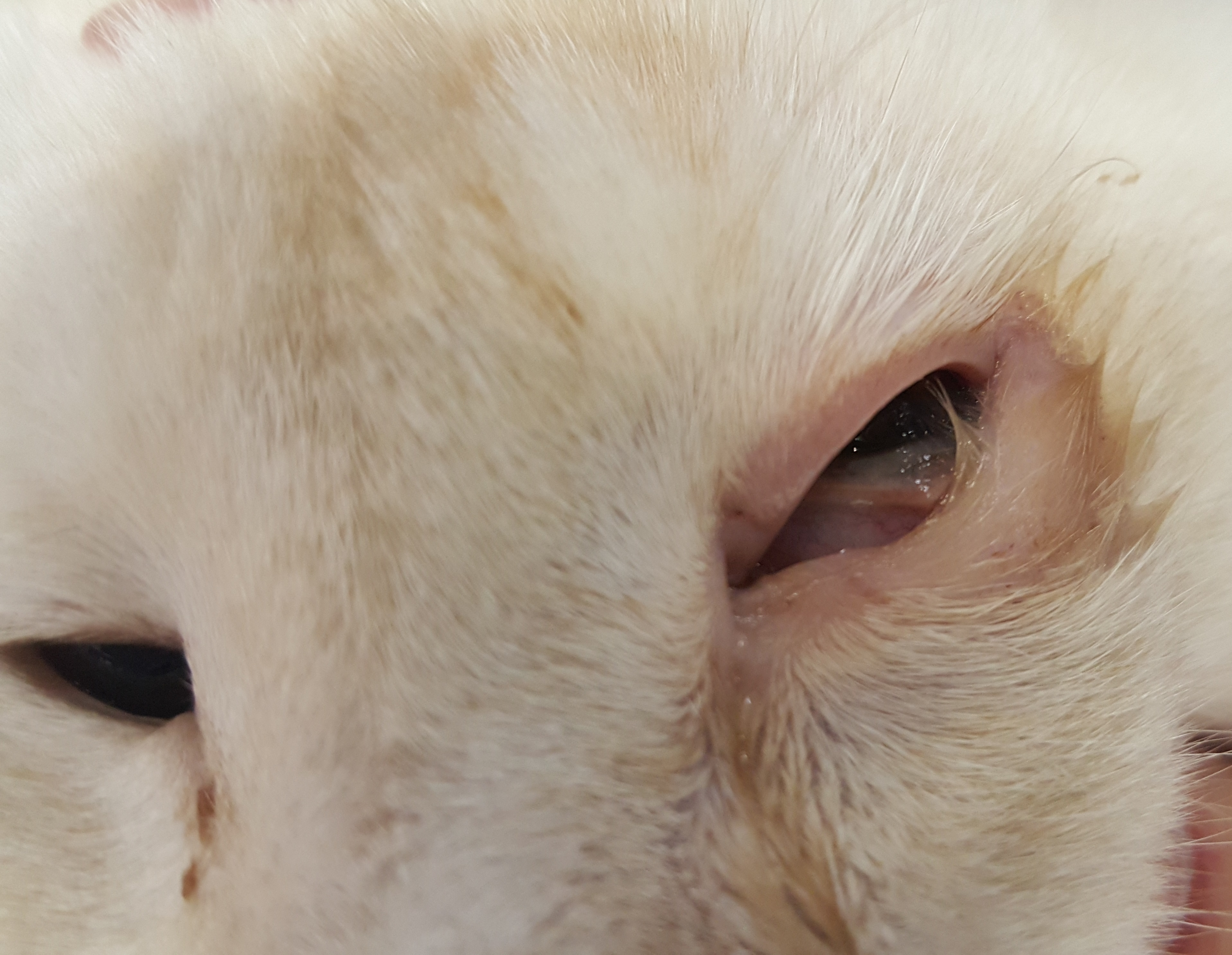 Feline Entropion Maine Coon 1 year